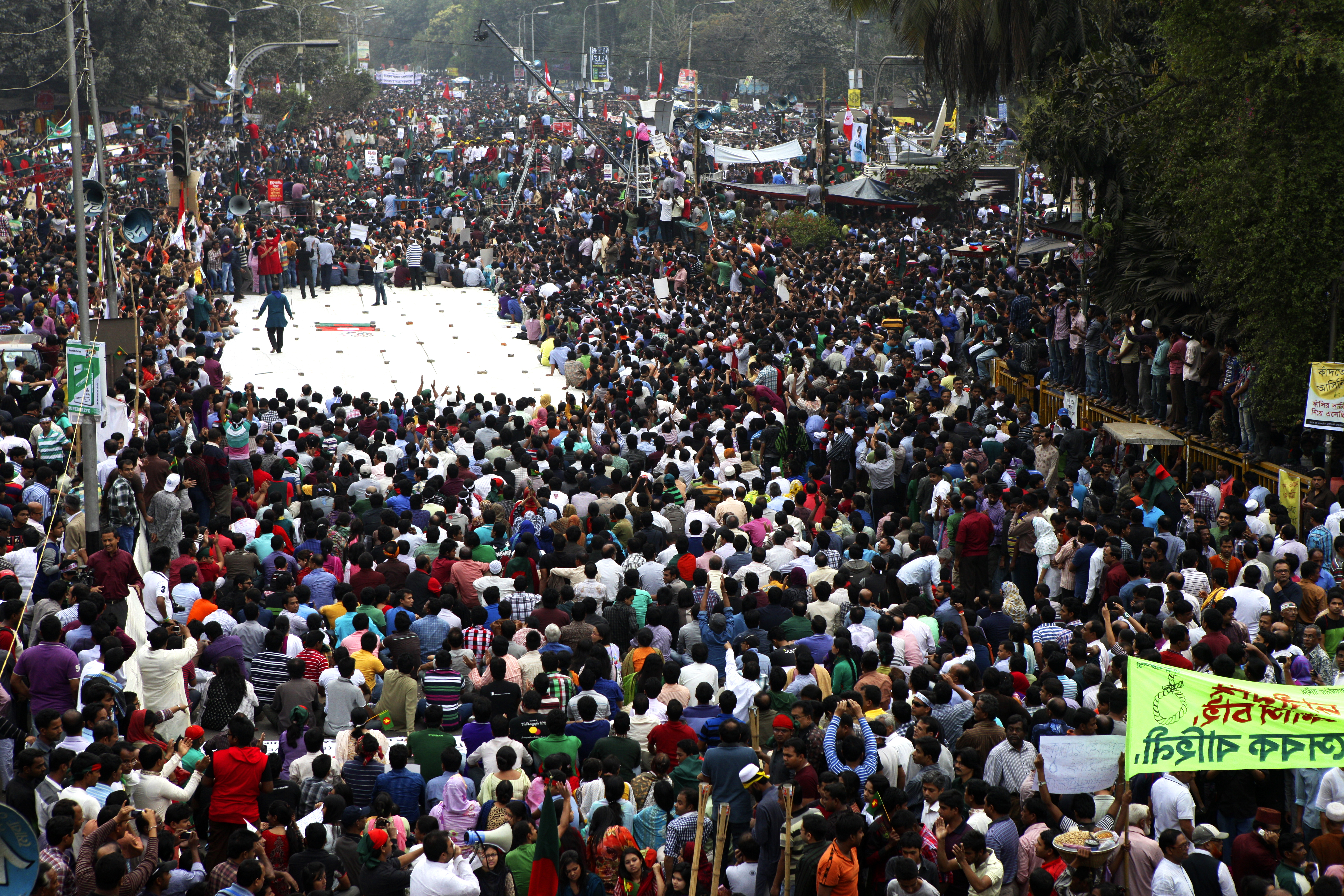 Bangladesh Unites at Shahabag Square for Protesting against War Crimes and with the demand to hang all War Criminals